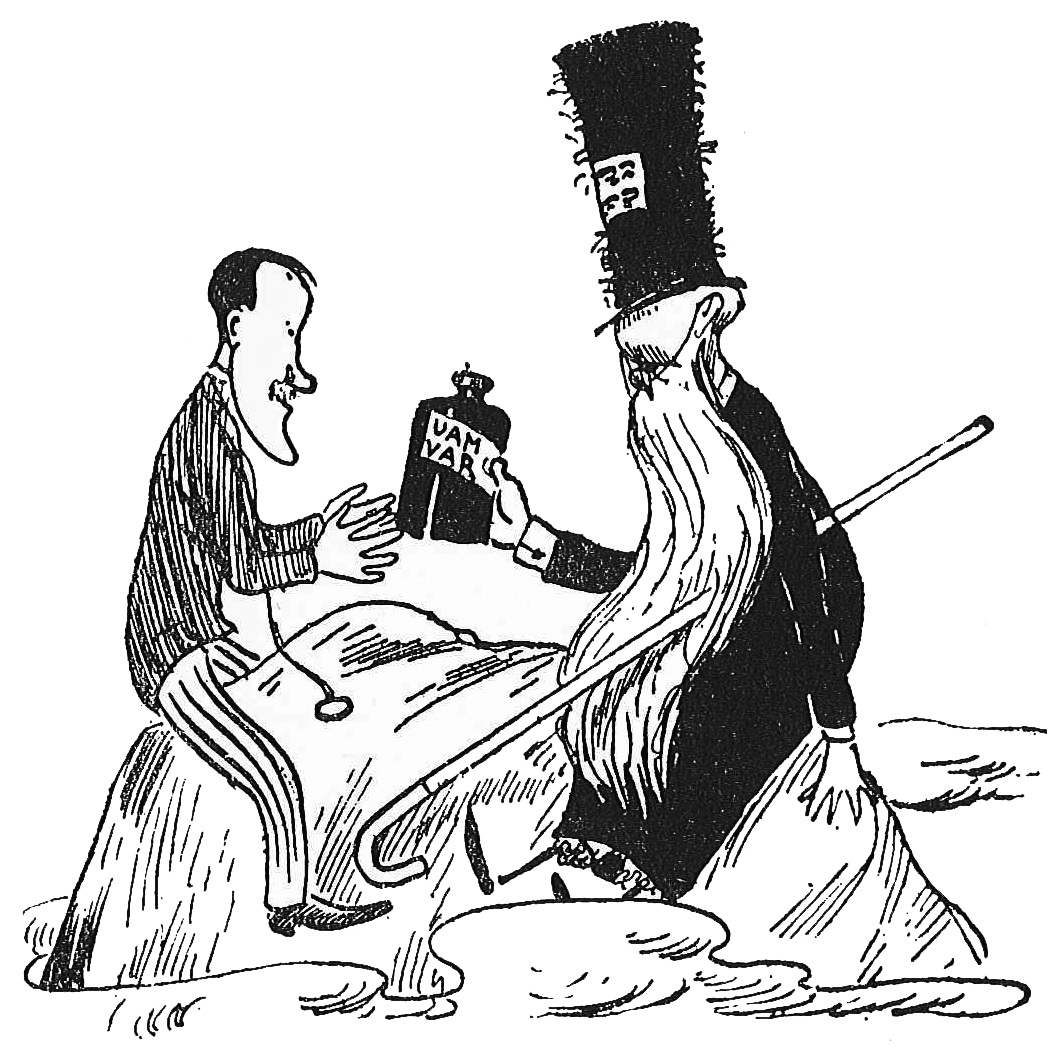 Illustration by Albert Engström for Axel Wallengrens short story Huru jag blev fakir (how I became a fakir), published 1895 in Söndags-Nisse.